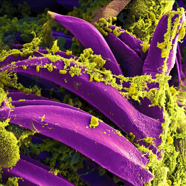 Scanning electron micrograph of Yersinia pestis, which causes bubonic plague, on proventricular spines of a Xenopsylla cheopis flea National Institute of Allergy and Infectious Diseases (NIAID)